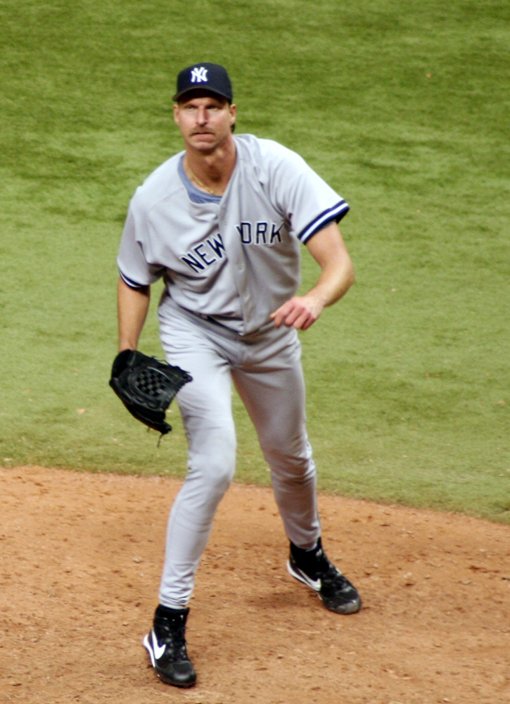 Photograph taken by Googie Man 20:39, 5 October 2007 . . Googie man . . 725×1000 (611 KB)